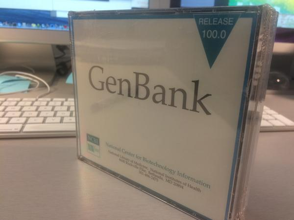 GenBank rel 100 on CD